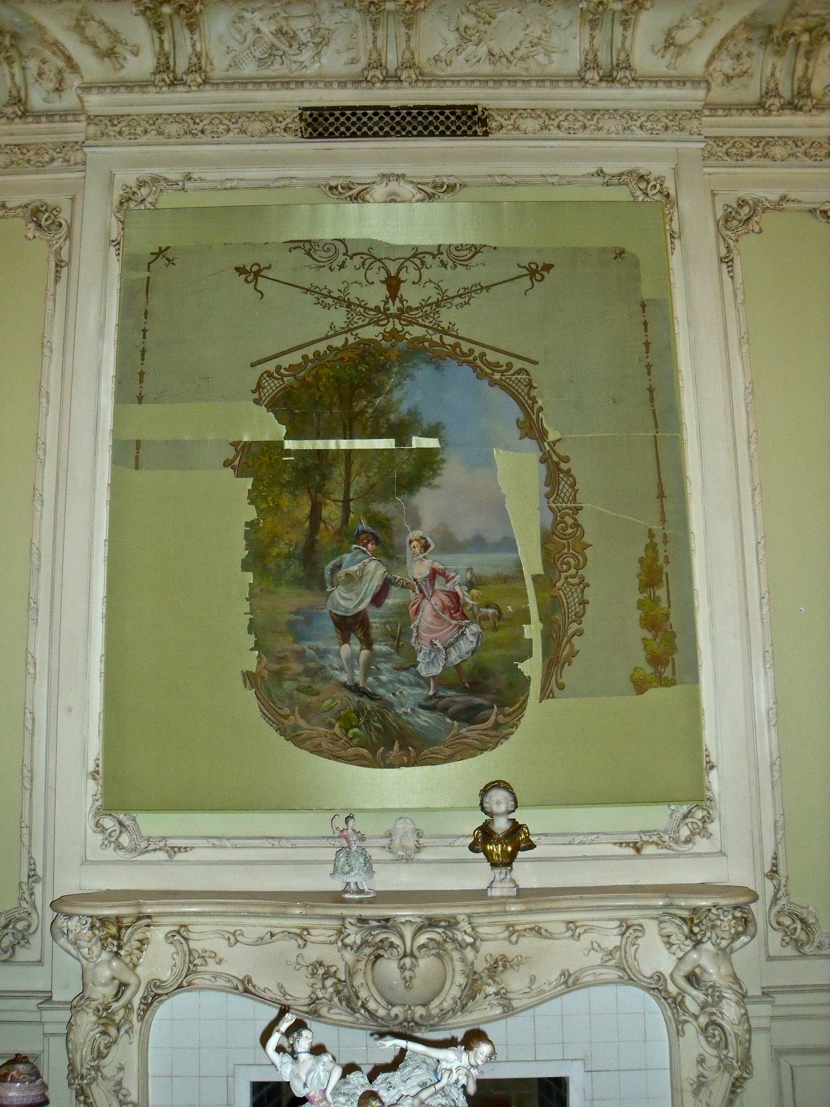 Painting by Alfred Faniel, Lounge room, Marius Dufresne House (Château Dufresne), 4040 Sherbrooke Street East, Montreal, Quebec, Canada.